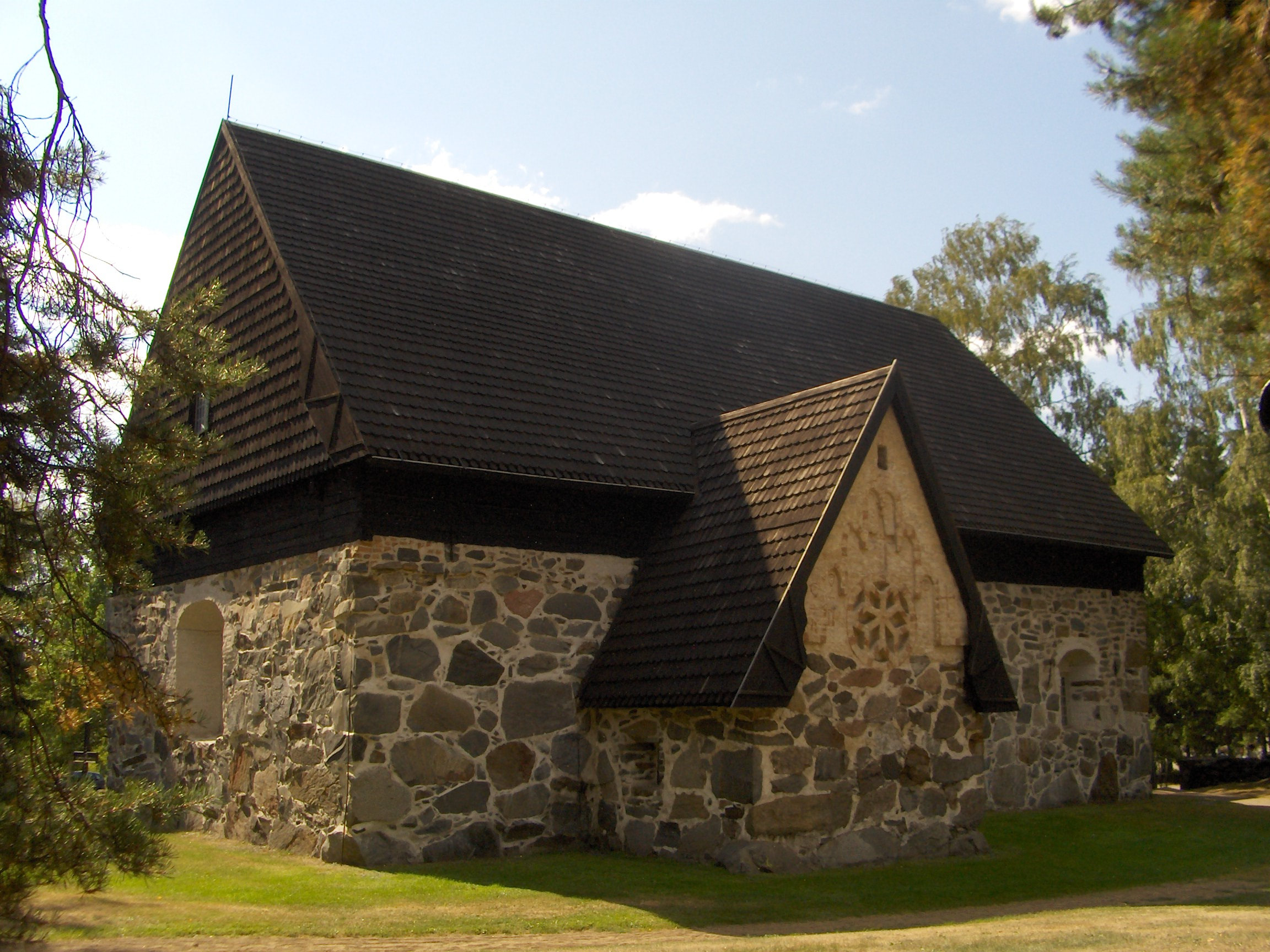 Messukylä old church in Tampere